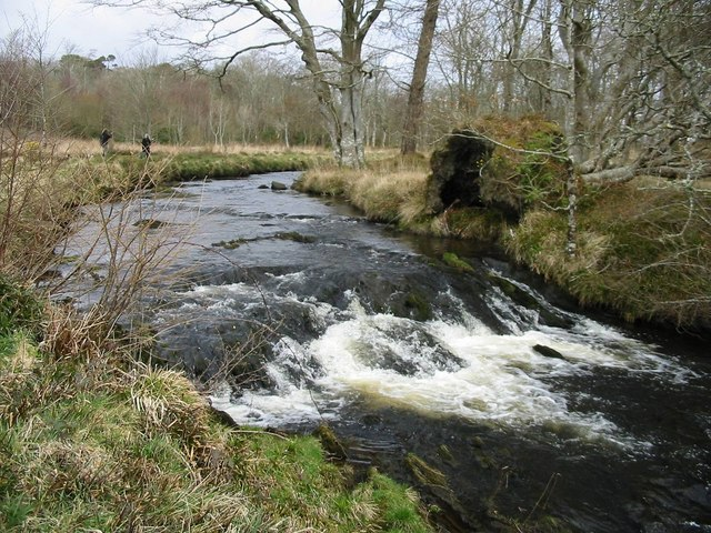 White water on the River Sorn